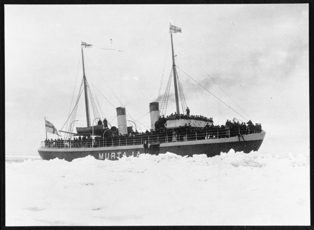 Murtaja, the first Finnish state-owned icebreaker, on sea trials in 1890.